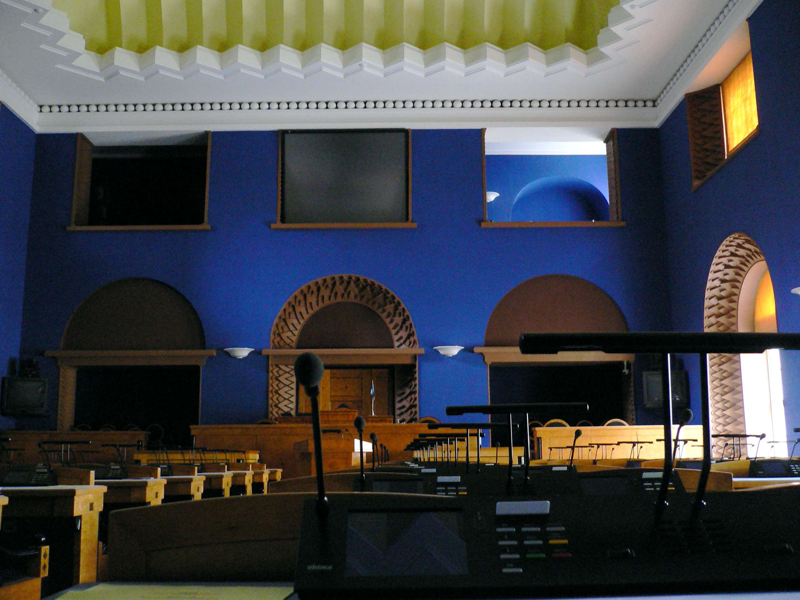 Estonian Parliament, 2005